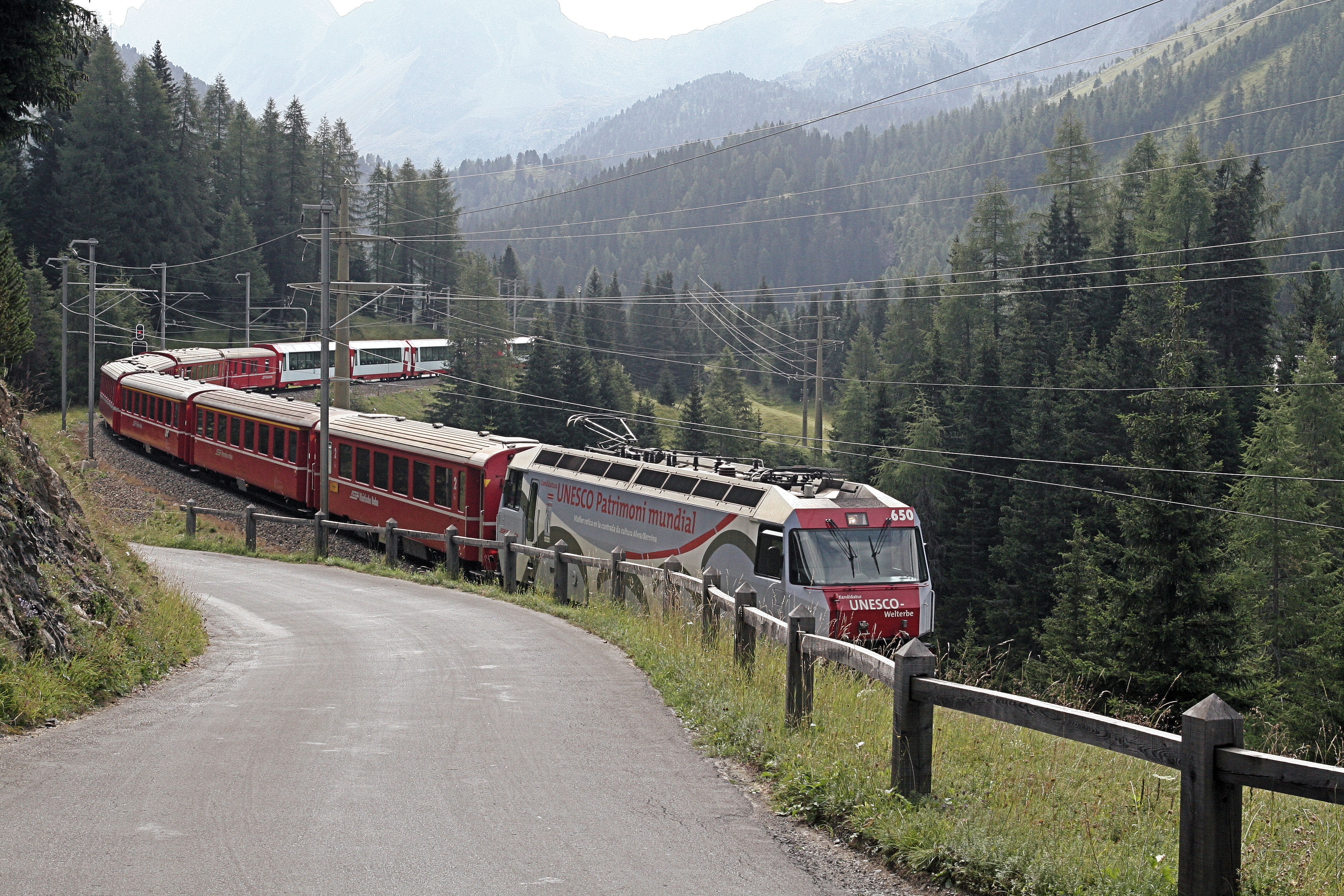 Glacier-express near Preda, Switzerland